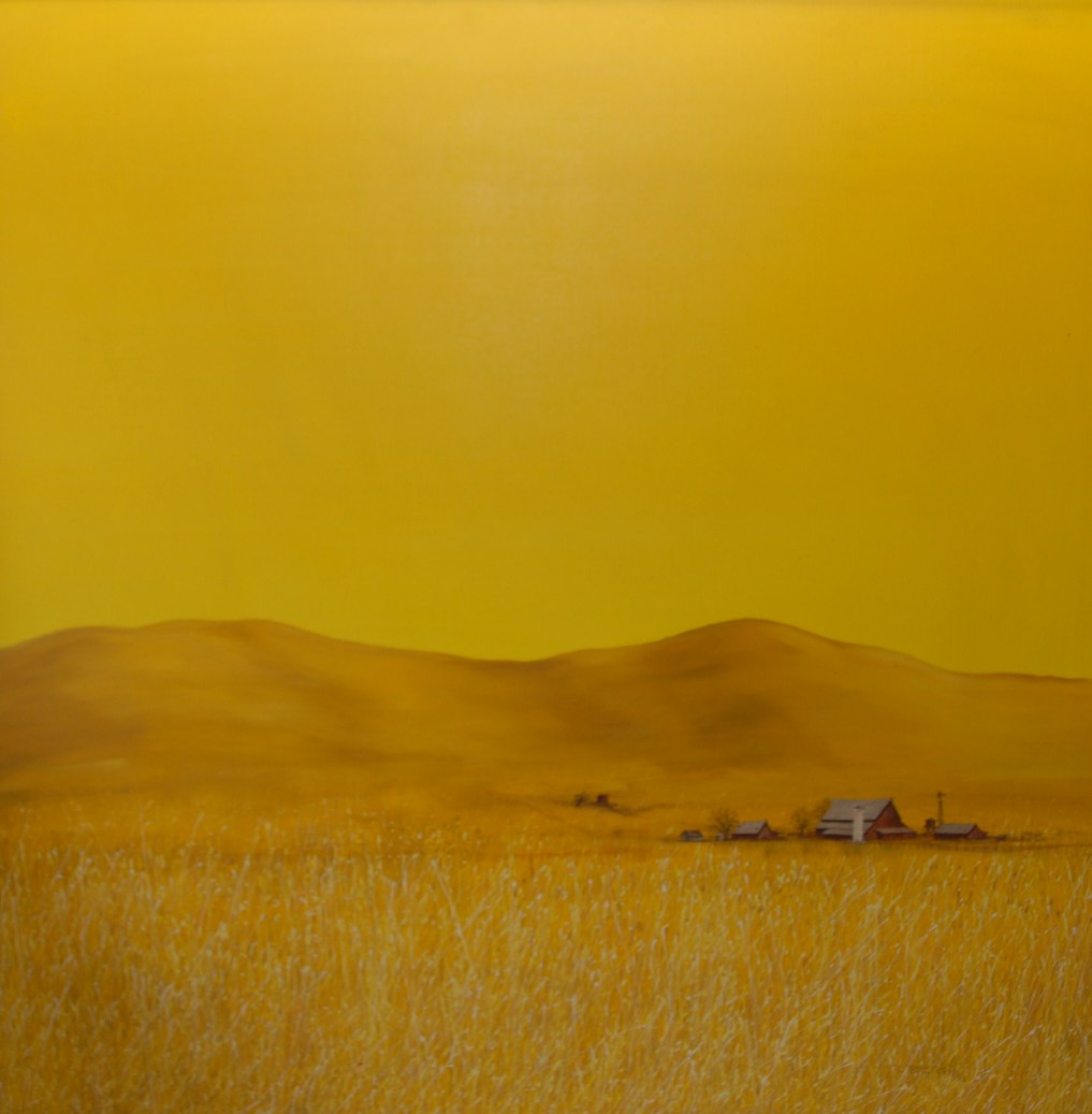 Painting by Duane Armstrong Oil on Canvas